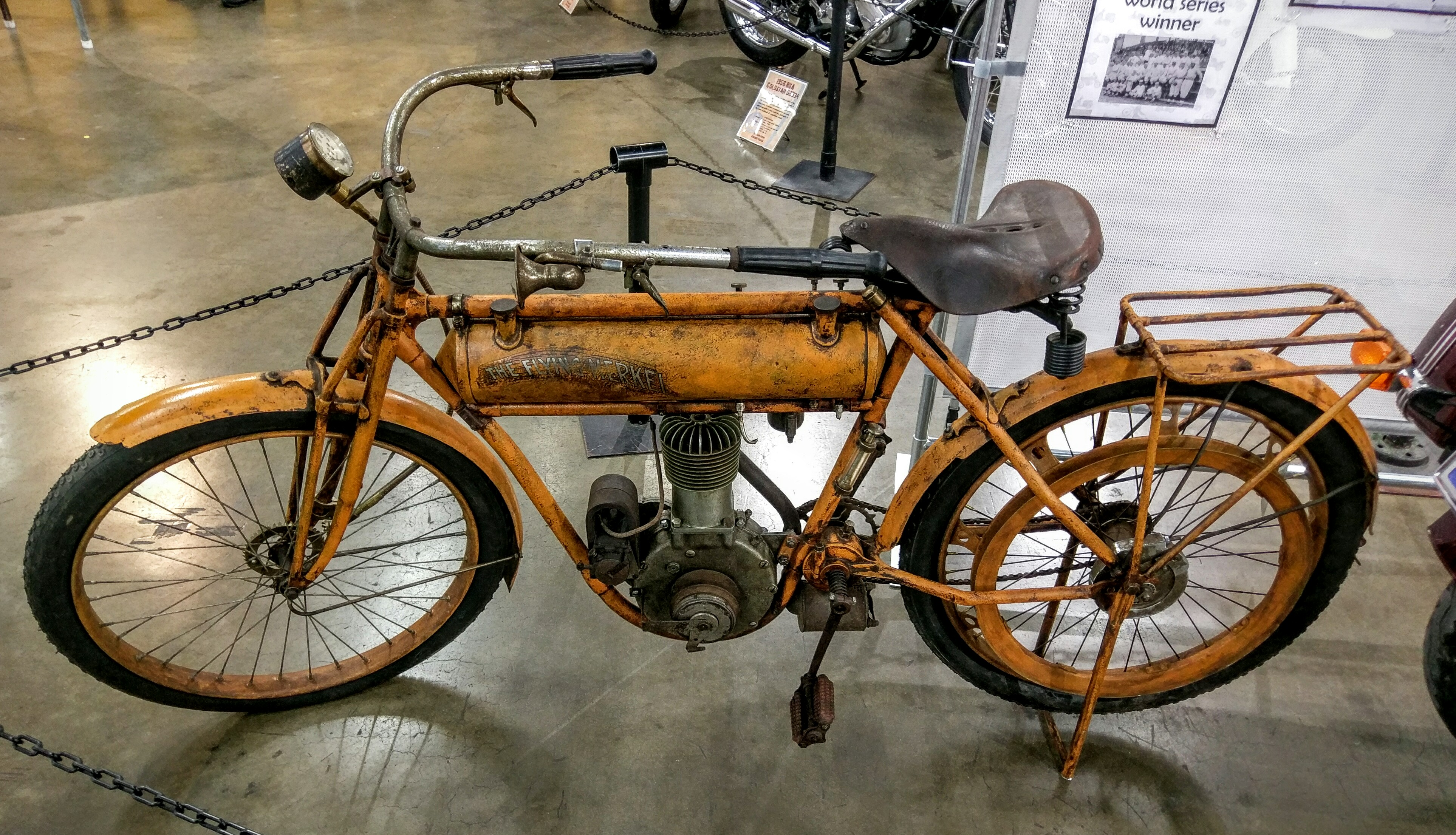 On display at the California Automobile Museum. Photo by Jim Heaphy.